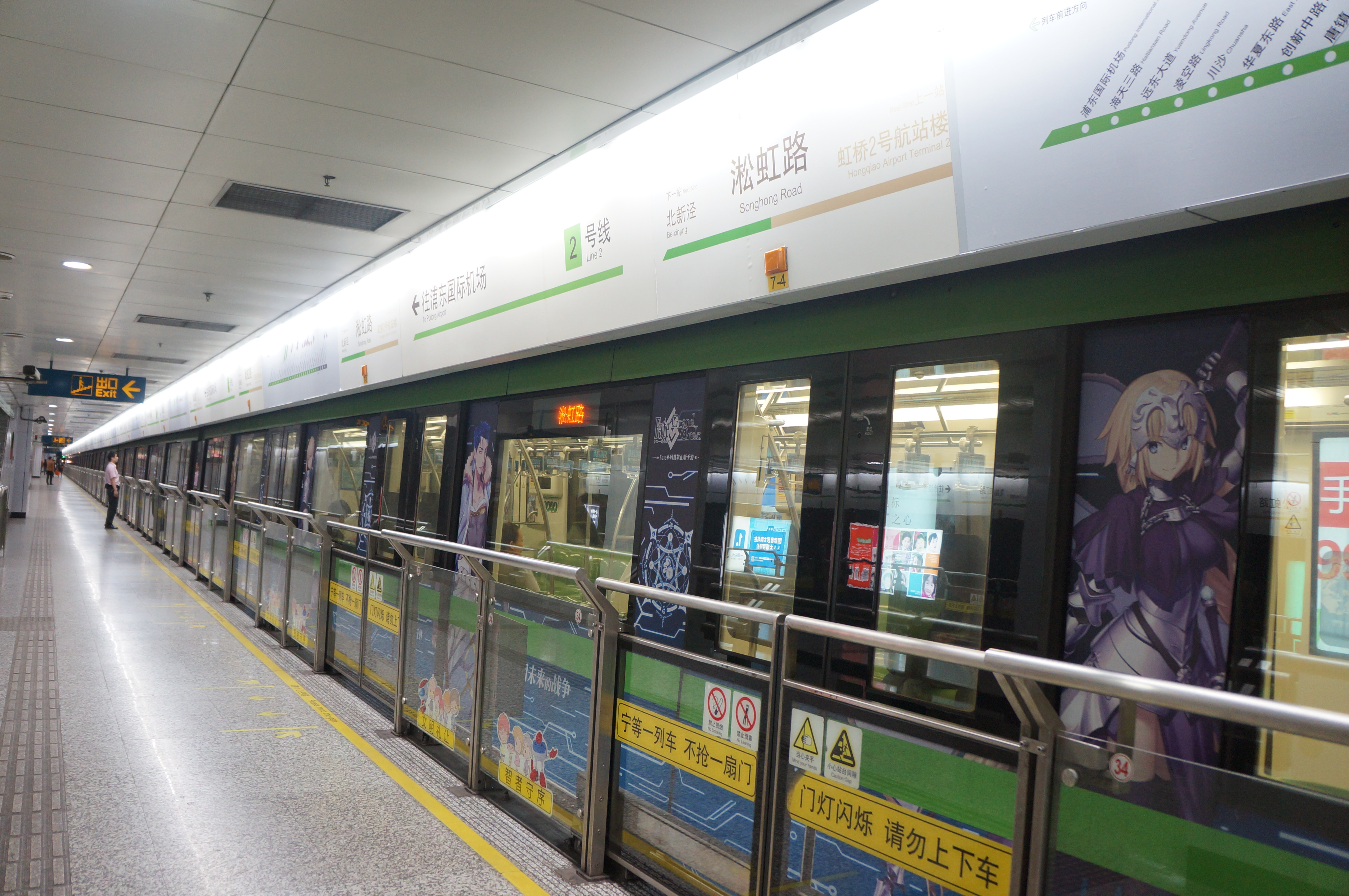 201611 AC08 train with FGO adv at Songhong Road Station